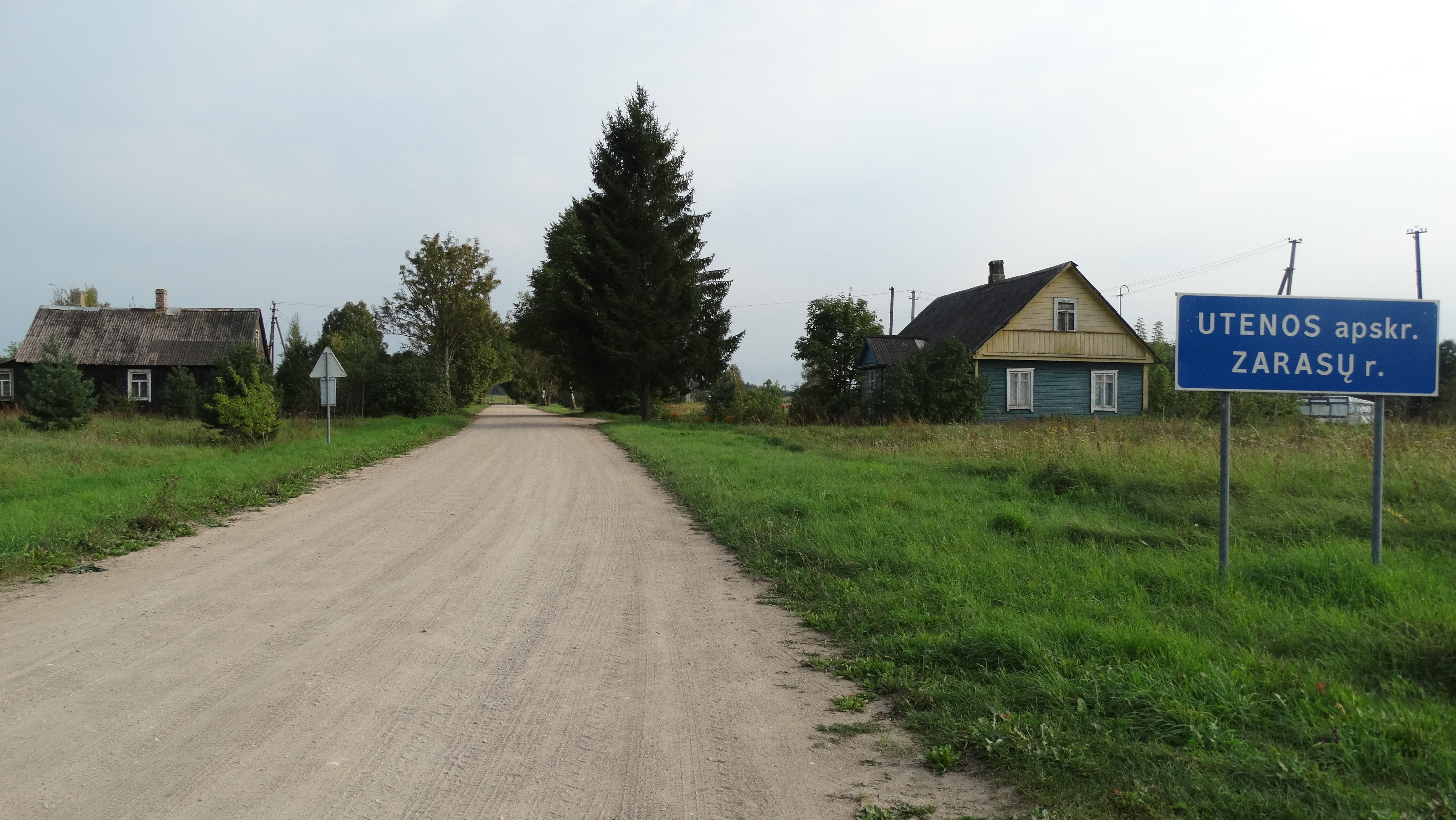 Barauka, Zarasai District, Lithuania